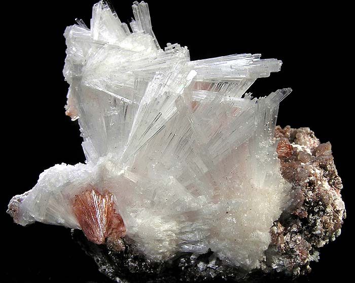 Natrolite, Inesite Locality: Wessels Mine (Wessel's Mine), Hotazel, Kalahari manganese fields, Northern Cape Province, South Africa (Locality at ) Beautiful and lustrous slender needles of Natrolite are accented perfectly by the equally lustrous deep pink Inesites. This is really a sweet combination piece. .4 x 5.0 x 3.2 cm